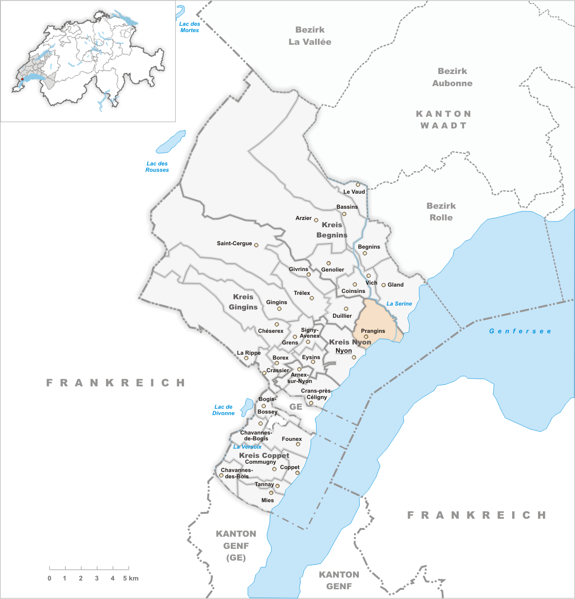 Municipality Prangins